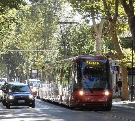 Tram in Mestre